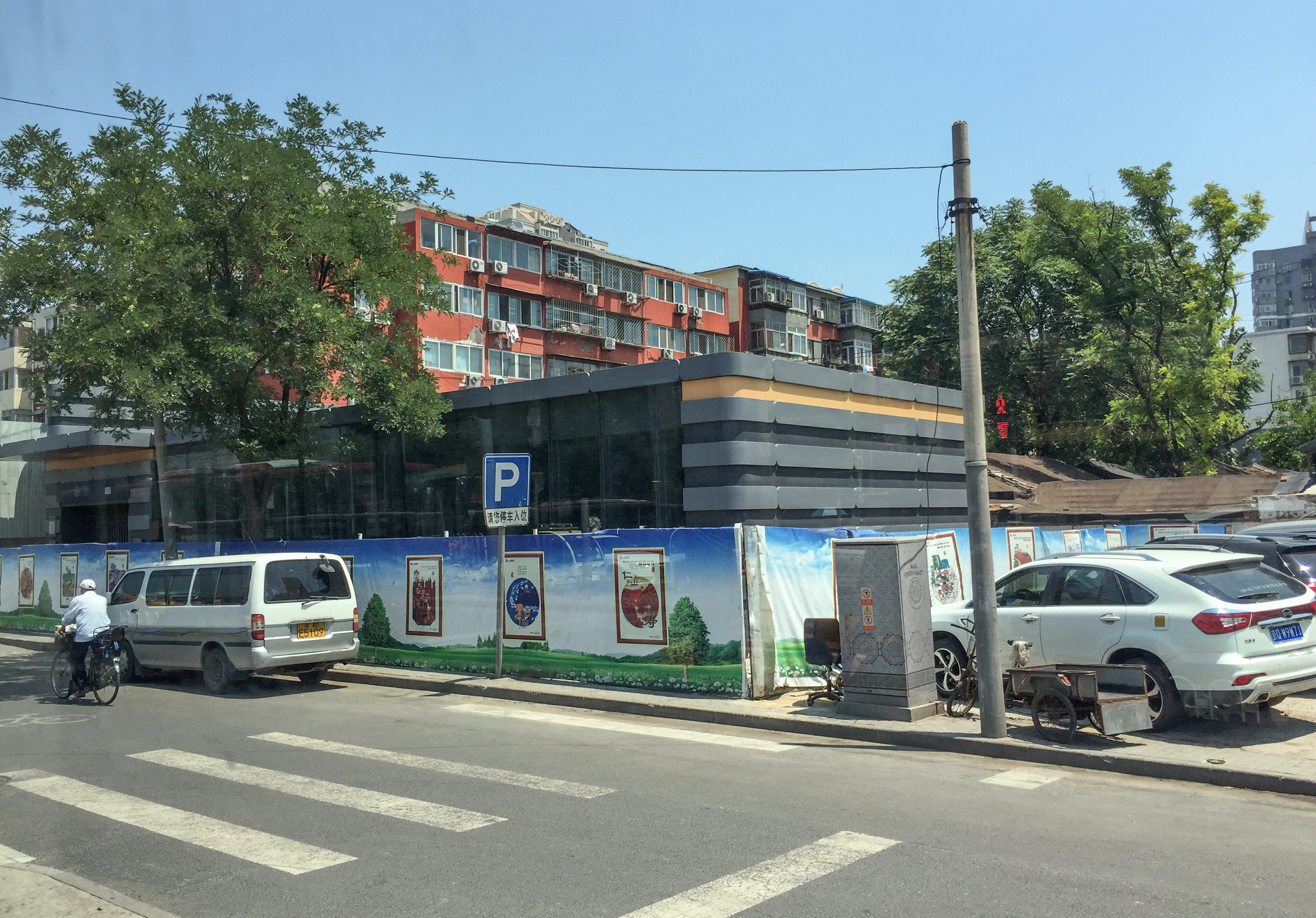 There's already an exit...